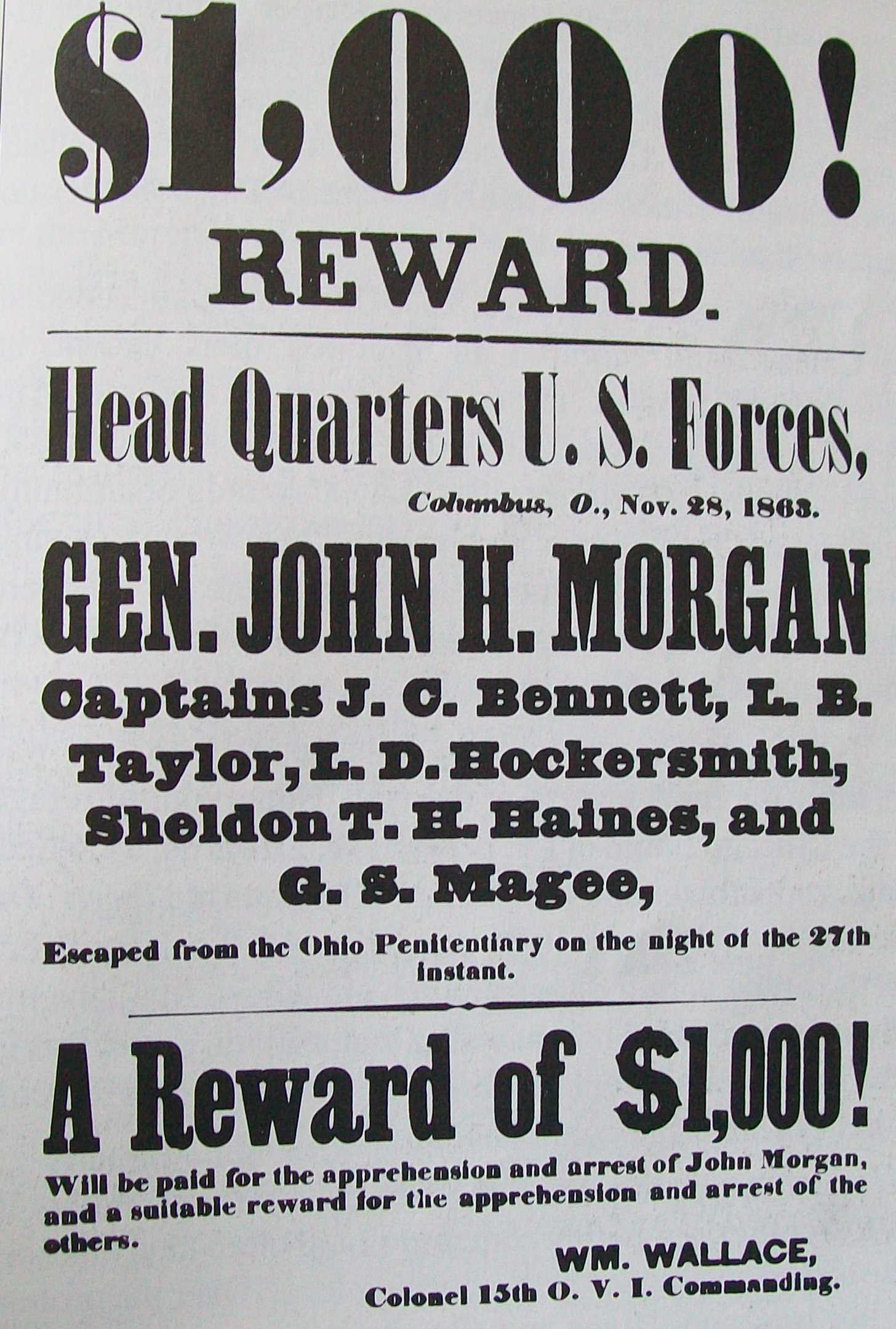 A poster advertising a reward for capturing John Hunt Morgan who had escaped from Camp Morton during the American Civil War